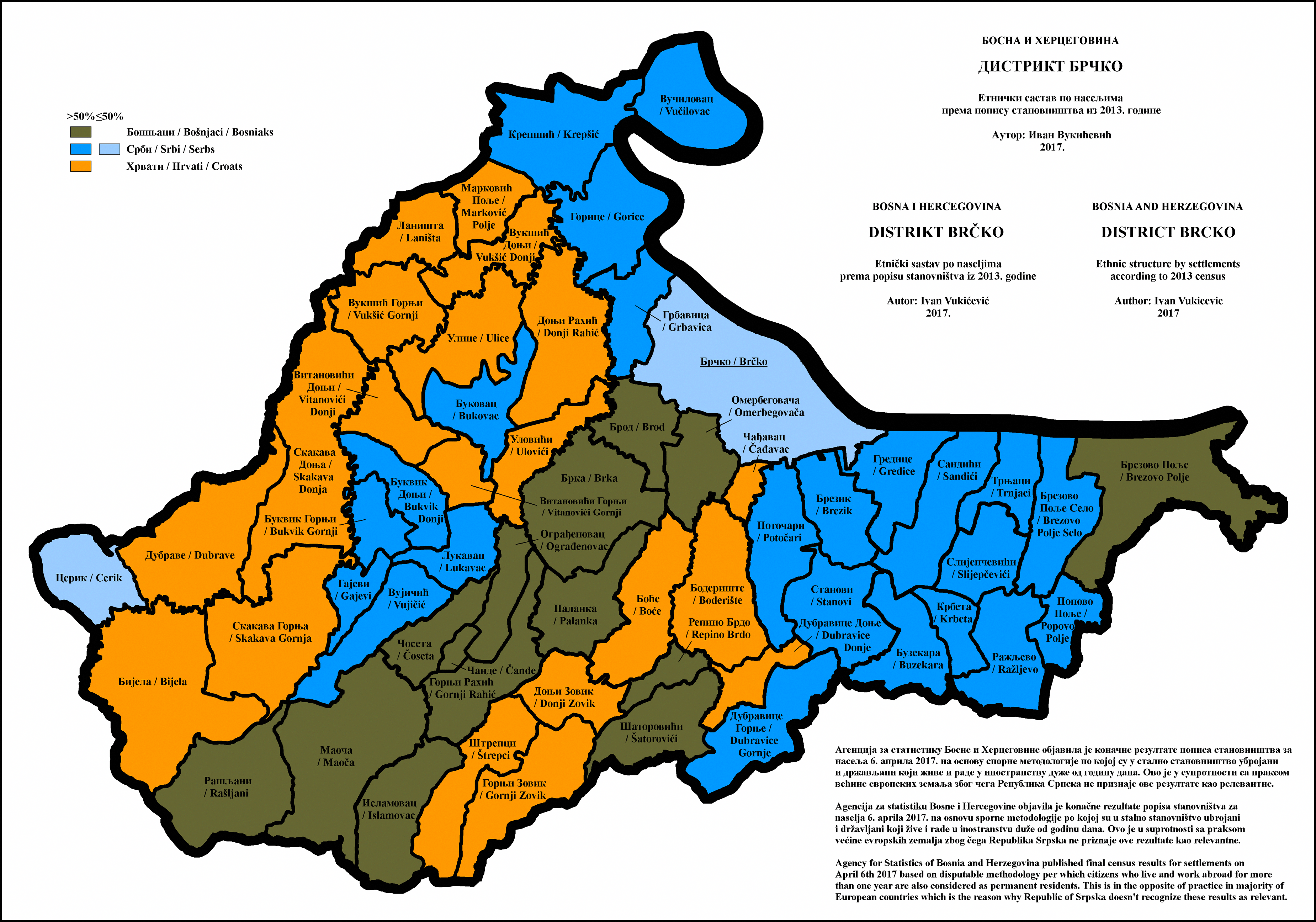 Ethnic structure of Brcko by settlements 2013. Authorː Ivan Vukicevic